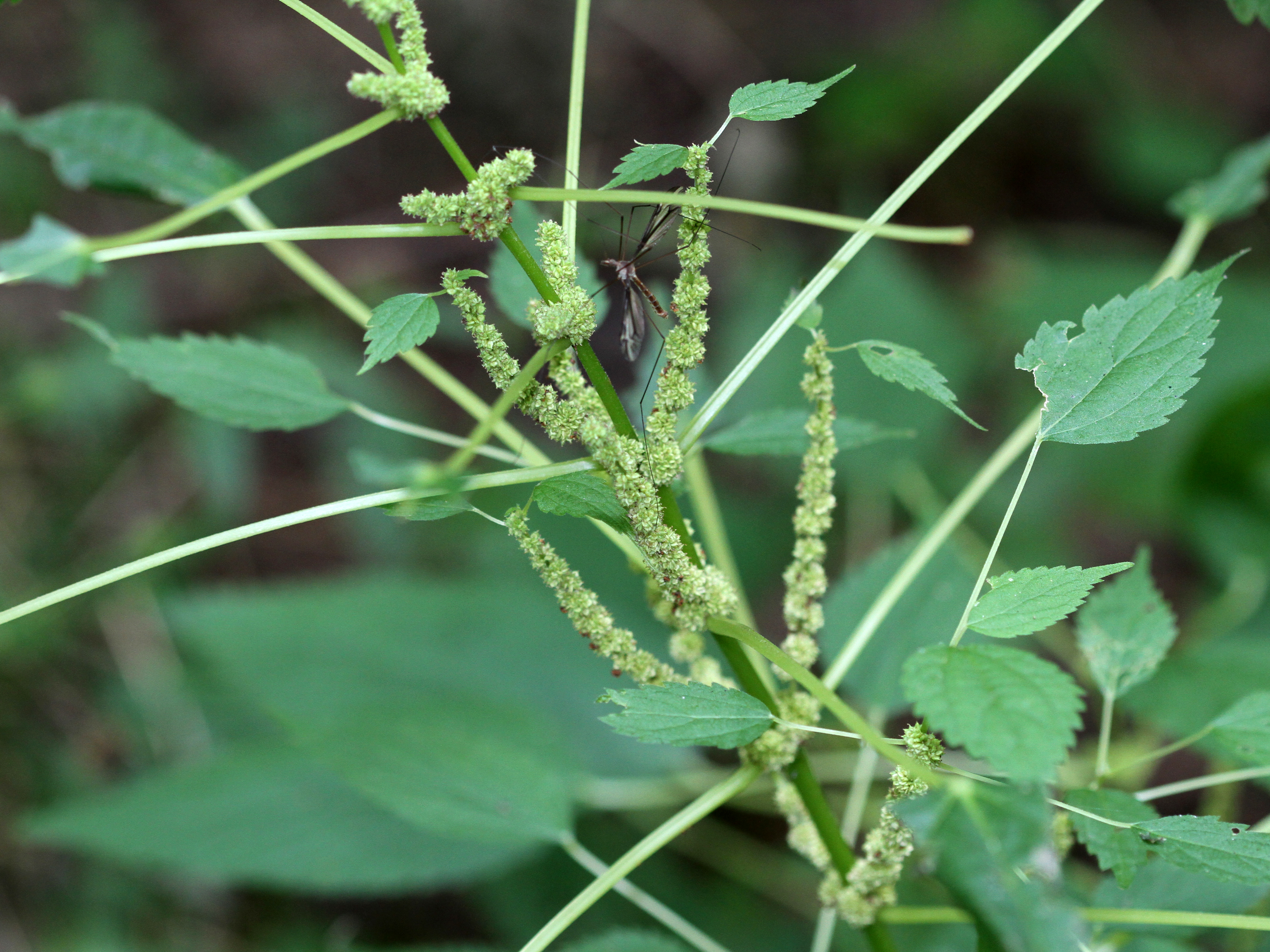 Boehmeria cylindrica - false nettle, bog hemp - at the Skaneateles Conservation Area, Onondaga County, New York